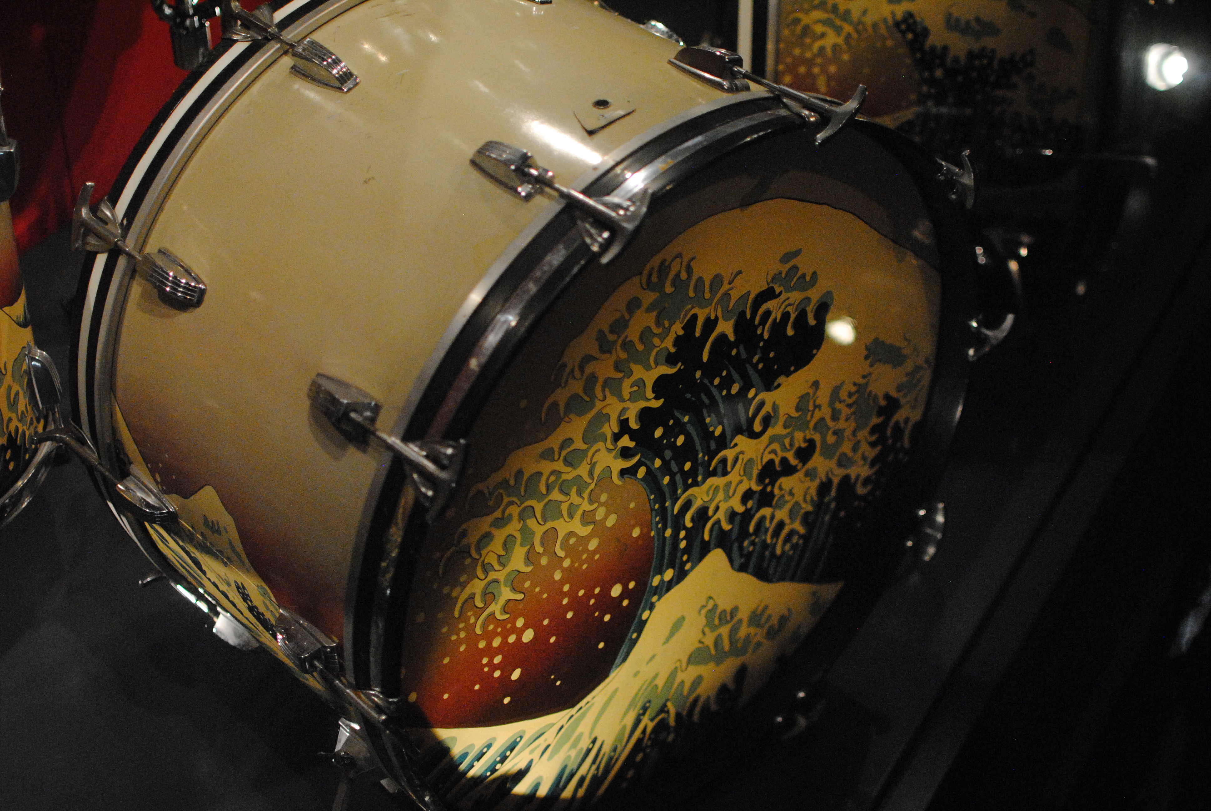 displayed at the Pink Floyd: Their Mortal Remains exhibition at the Victoria and Albert Museum.